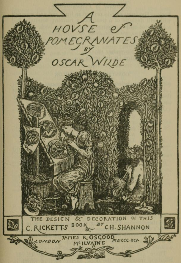 Book illustration